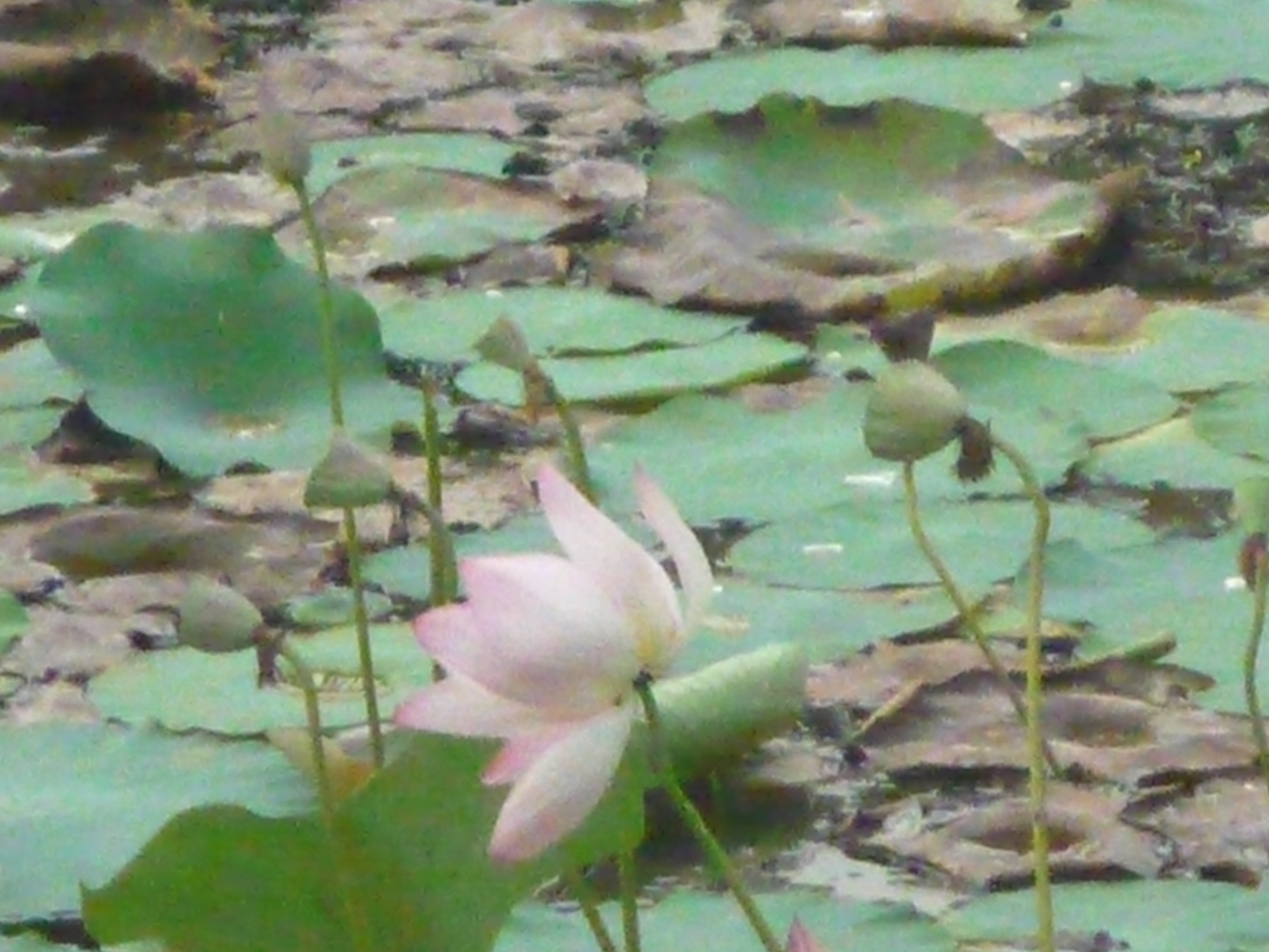 Image